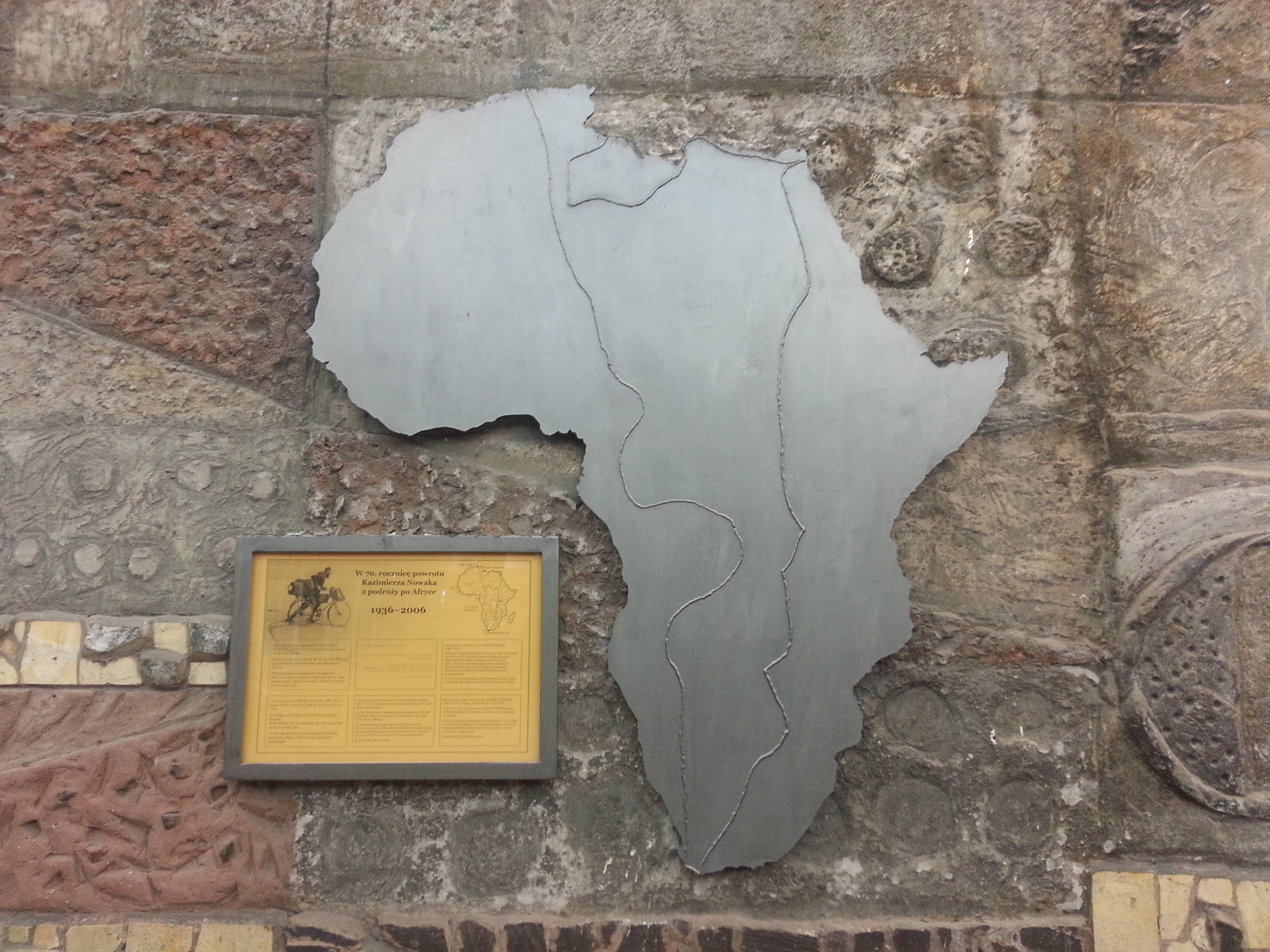 Kazimierz Nowak Memorial